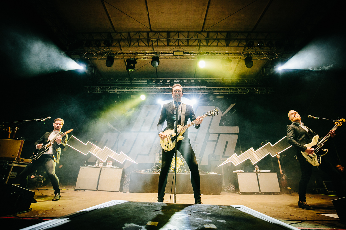 Royal Republic at Rock am Beckenrand 2017